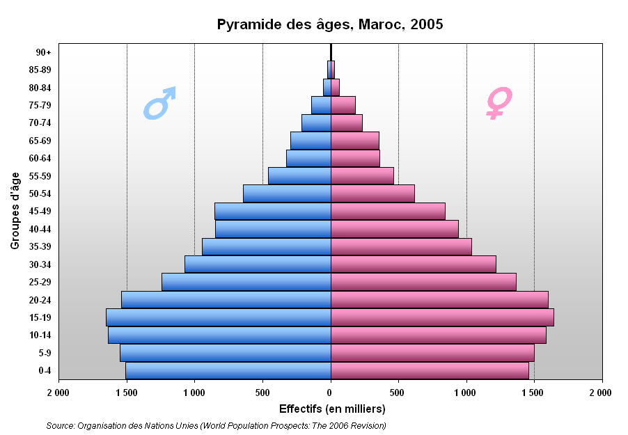 Morocco Population pyramid, 2005